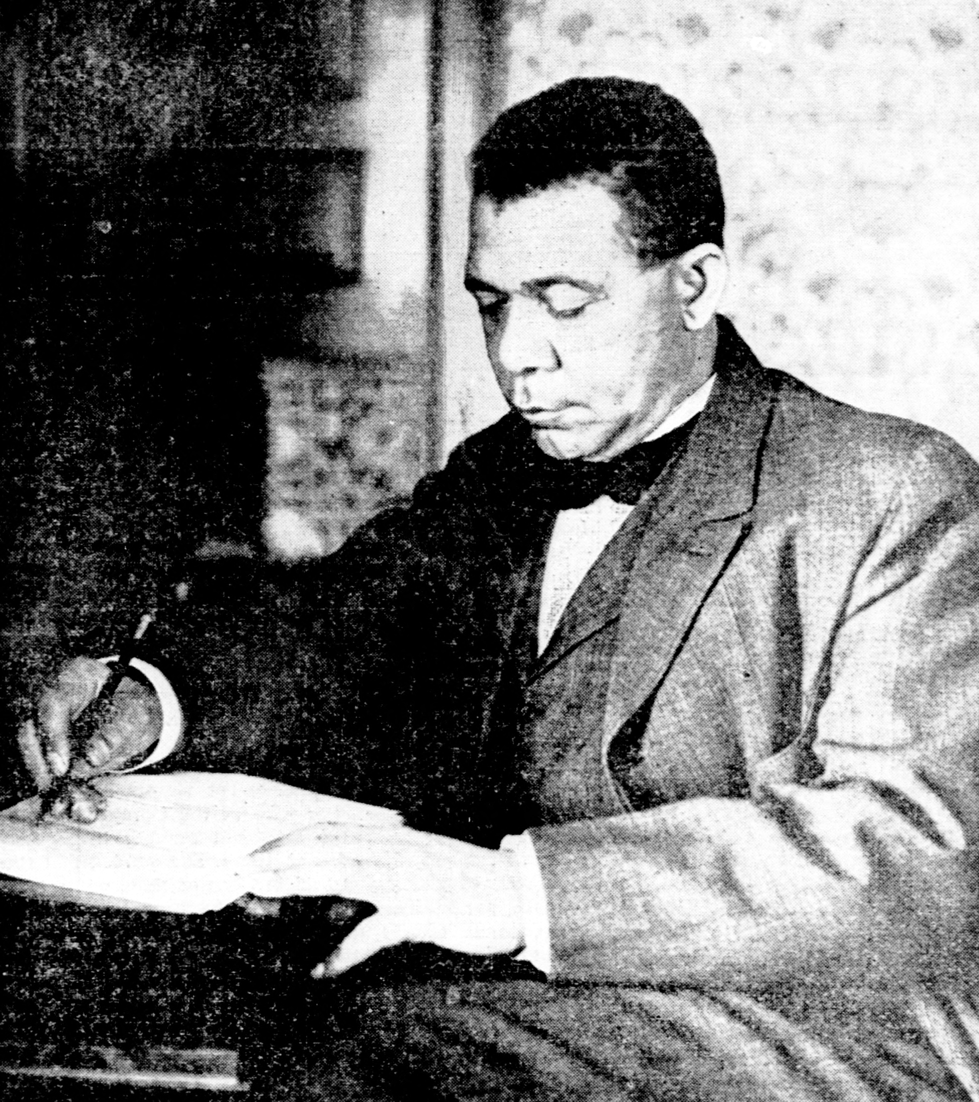 Booker Taliaferro Washington (April 5, 1856 – November 14, 1915) was an African-American educator, author, orator, and advisor to presidents of the United States. Between 1890 and 1915, Washington was the dominant leader in the African-American community. This is from a contemporary newspaper article.